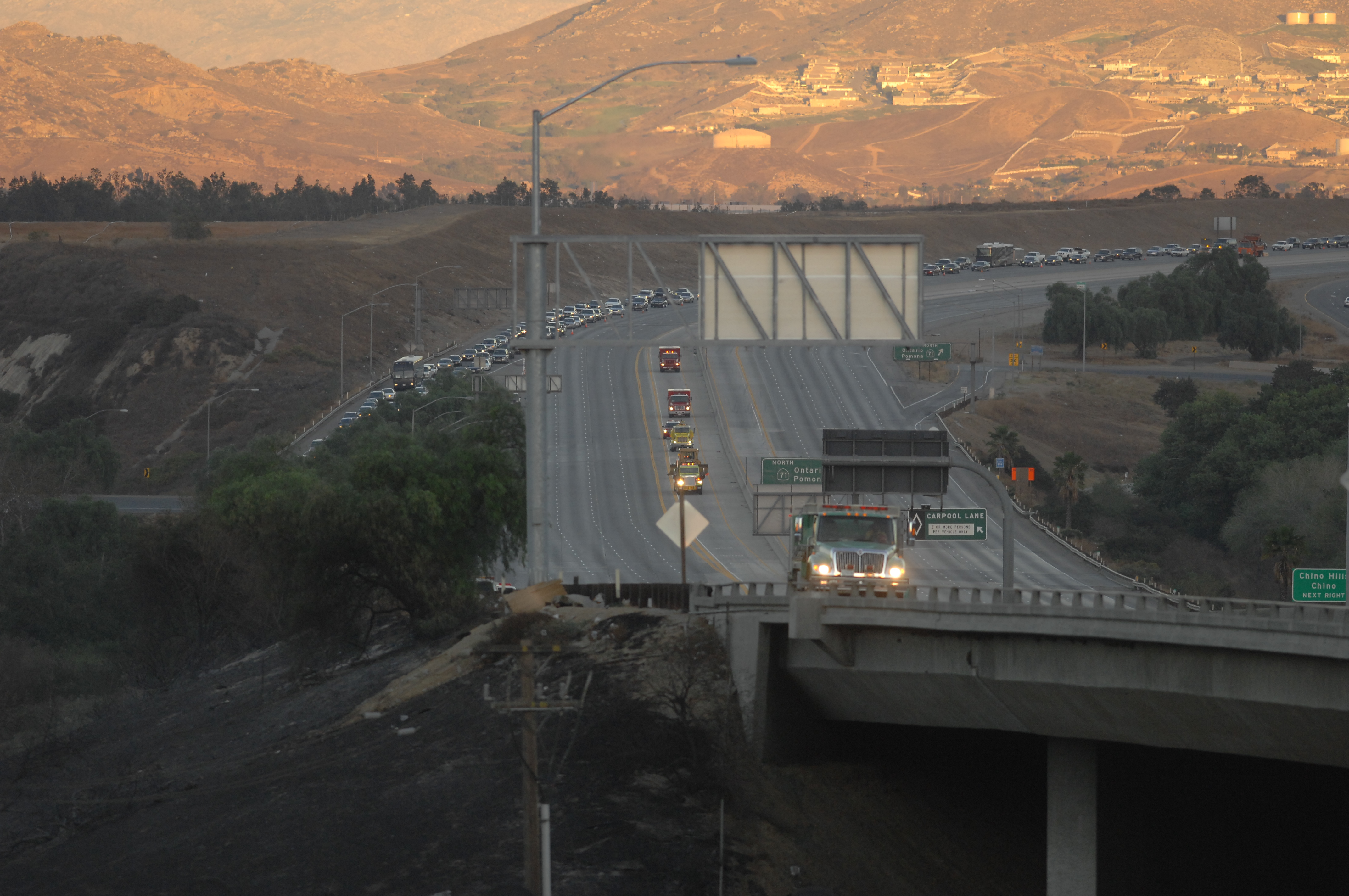 Closed freeways during Freeway Complex Fire, This is looking eastbound (toward Riverside) along the CA 91 at it's interchange with CA 71 in Corona, CA. Westbound traffic on the 91 is being detoured onto the NB CA 71